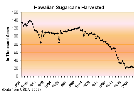 Graph illustrating the acres of sugarcane harvested in Hawai`i